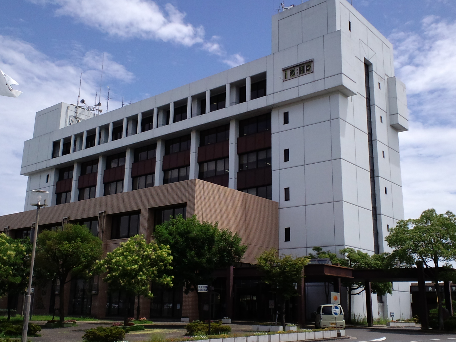 Kurashiki city office Kojima branch office